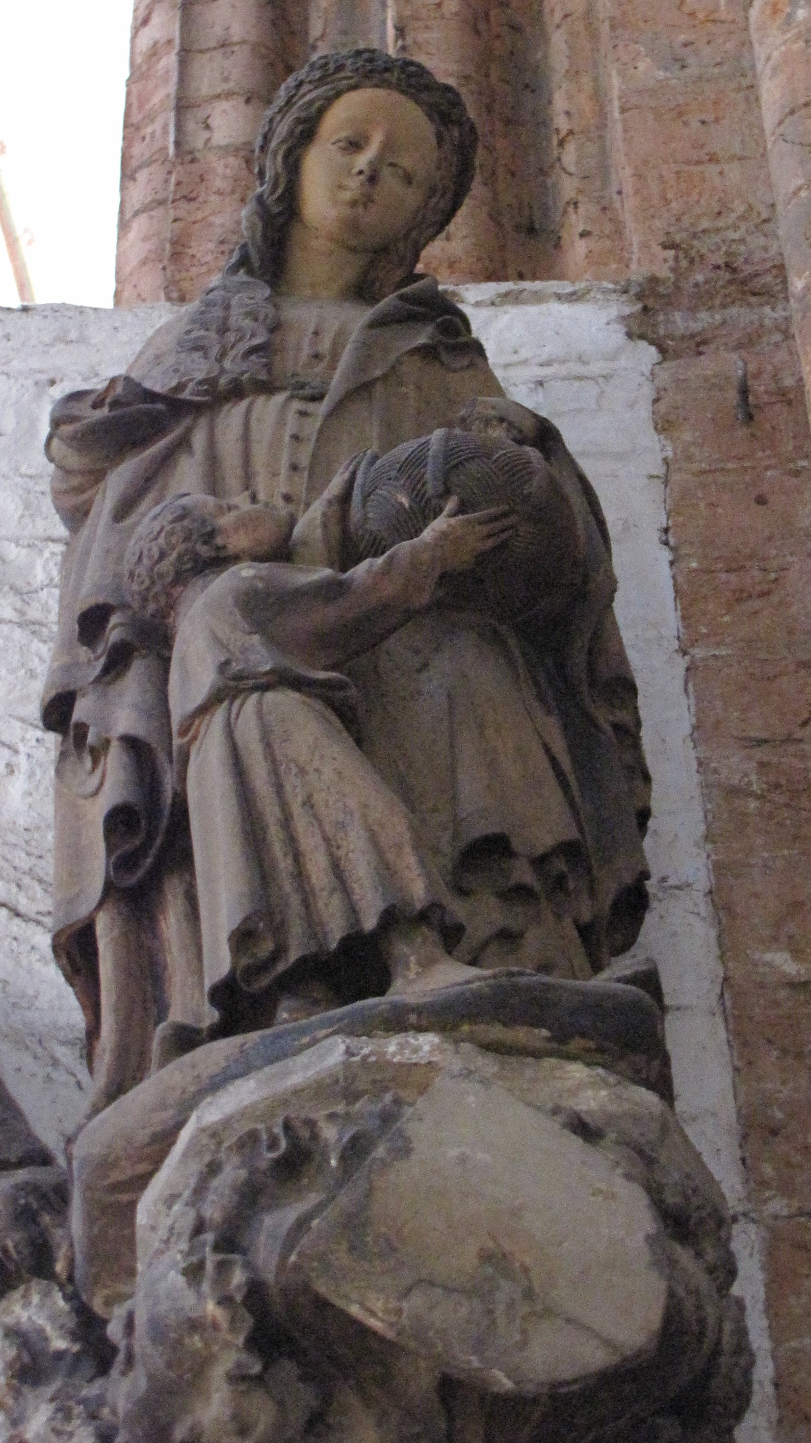 Stone statues from the Lettner (rood screen) of St. Marien, Lübeck, 1410: St. Dorothy